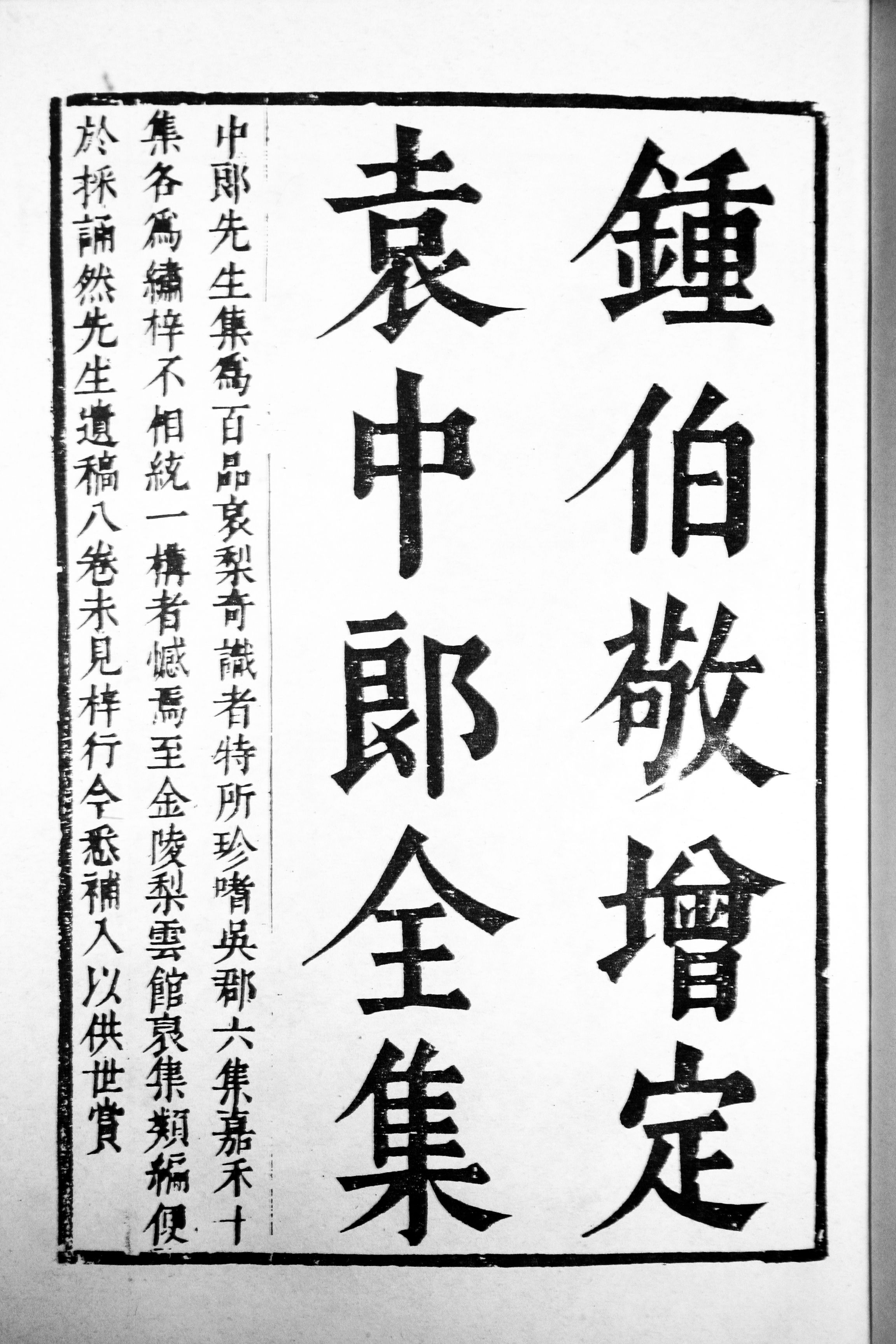 Ming Dynasty art related to Yuan Hongdao from File:IMG_Yuan_Collected.JPG from user:Iwanafish, made a little less bluish.